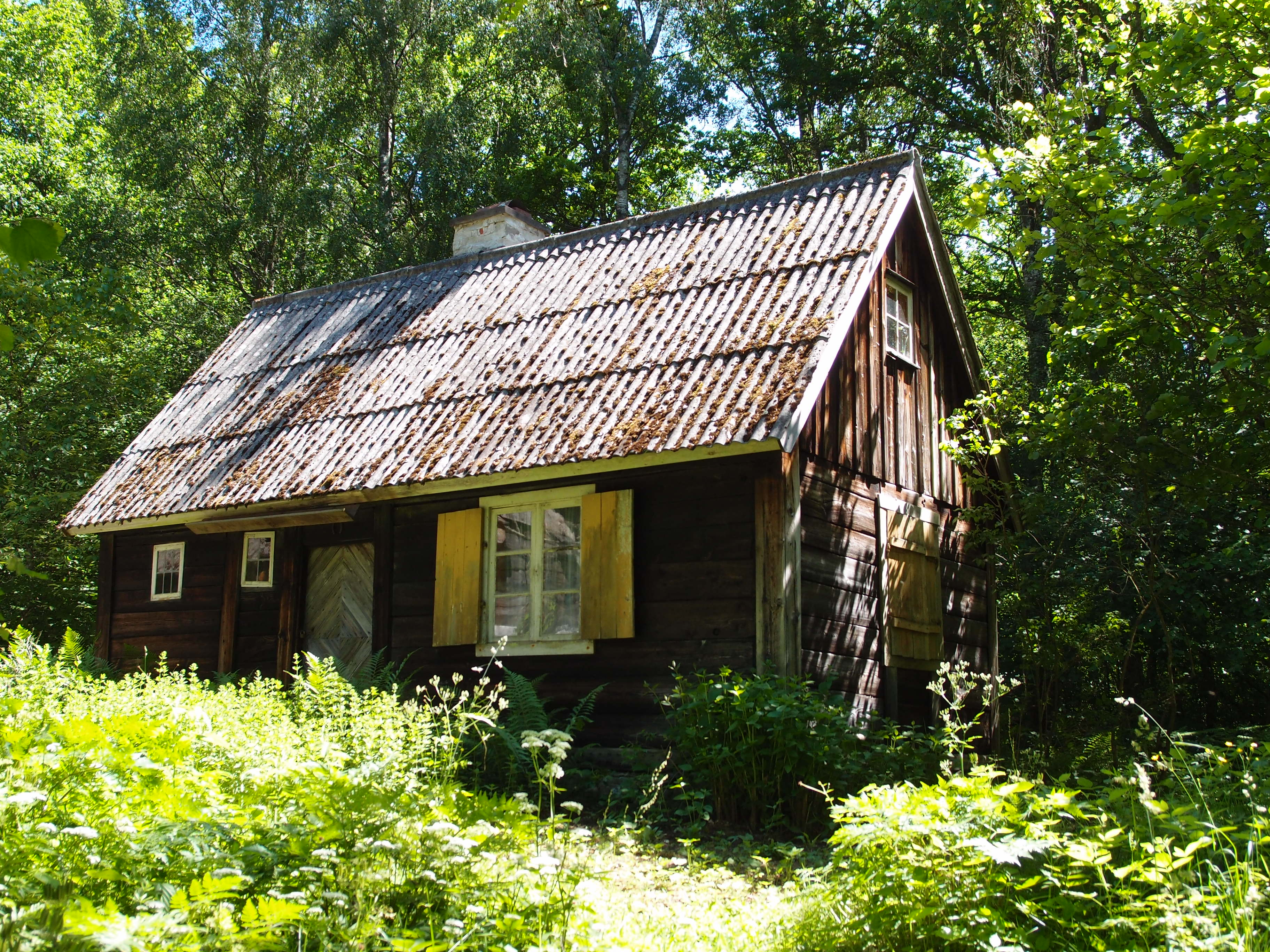 Cottage of Nilla Jönsdotter, aka Posta-Nilla